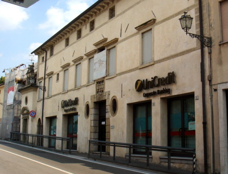 Pieve di Soligo: Villa Morona e oratorio